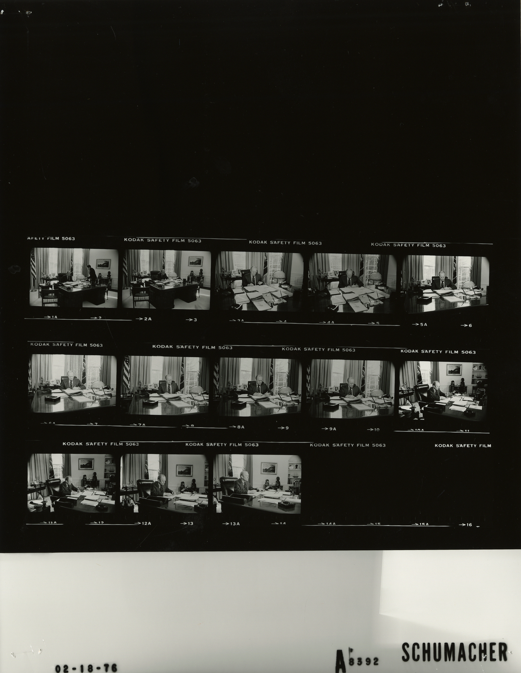 Signing Ceremony for Executive Order 11905, Proposing Legislation to Reform the US Foreign Intelligence Community. Ford seated at desk, signing papers; various angles and distances; O'Donnell in frame 2 only.